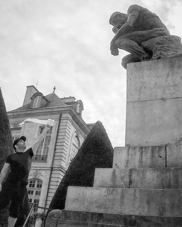 My photo of Joe Lipari's homage to Robin Williams, handing toilet paper to Rodin's thinker in Paris, France.